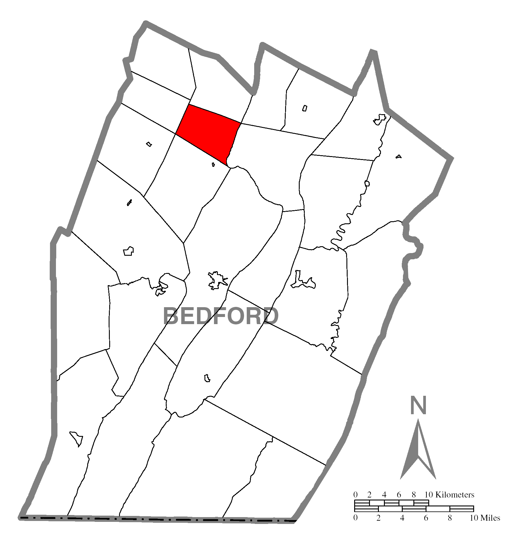 A map of Bedford County showing King Township, Pennsylvania (alternate) highlighted on the map.